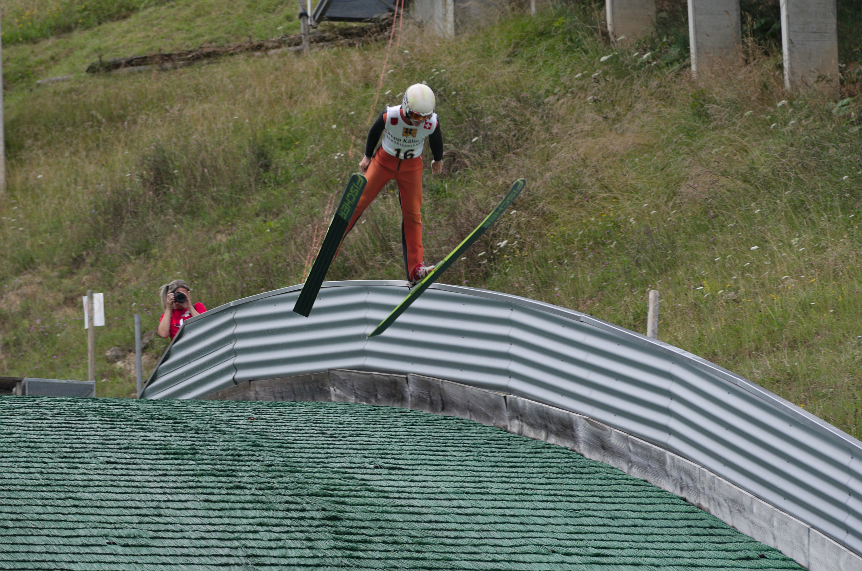 FIS Sommer Grand Prix 2014 - 20140809 - Young jumping